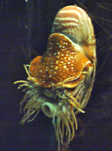 Author: Tero Keski-Valkama Photo taken from the Ocean World, Bangkok, Thailand, March 2007. This photo was taken on live.